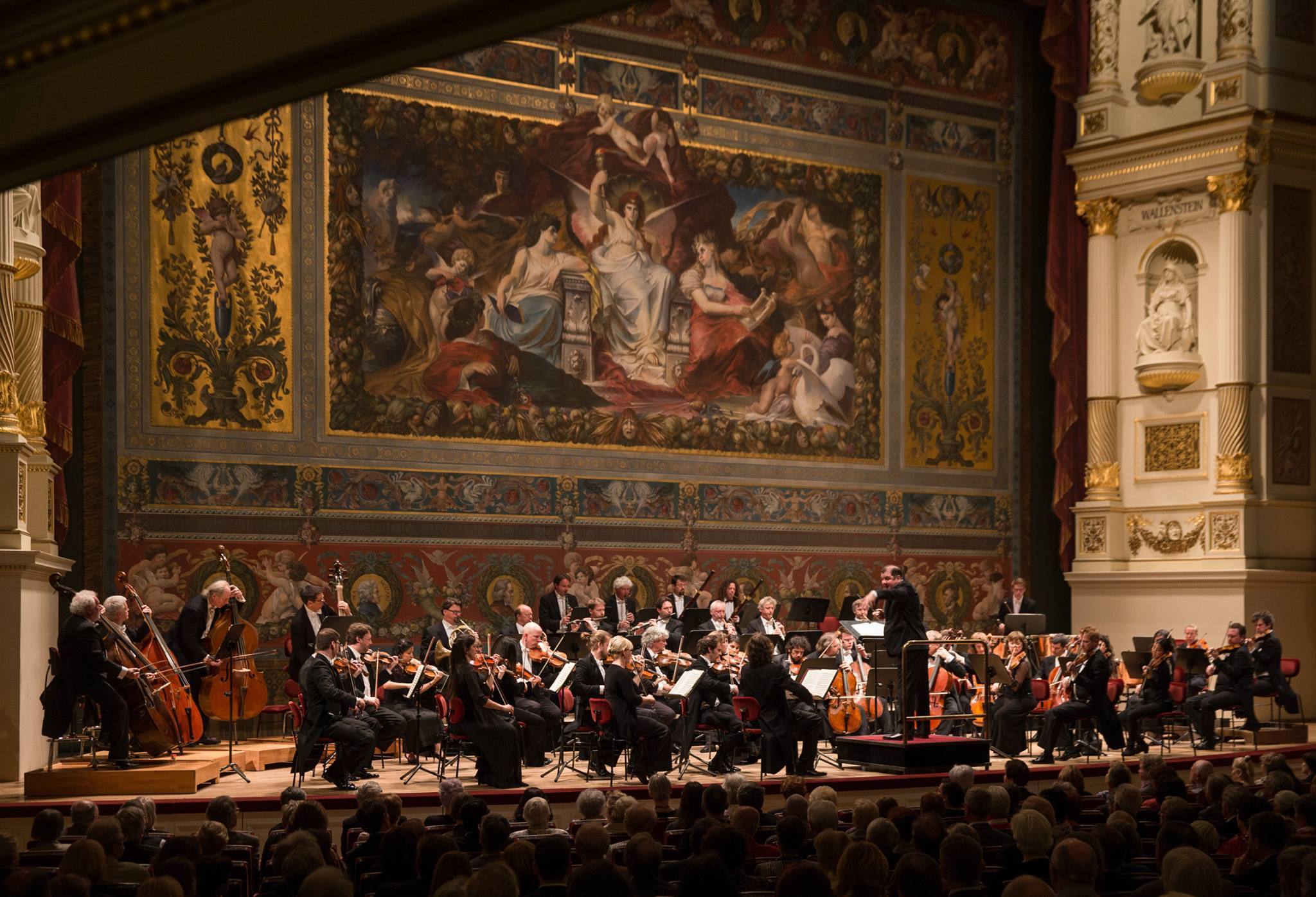 Abschlusskonzert des Dresdner Festpielorchester in der Semperoper Juni 2016